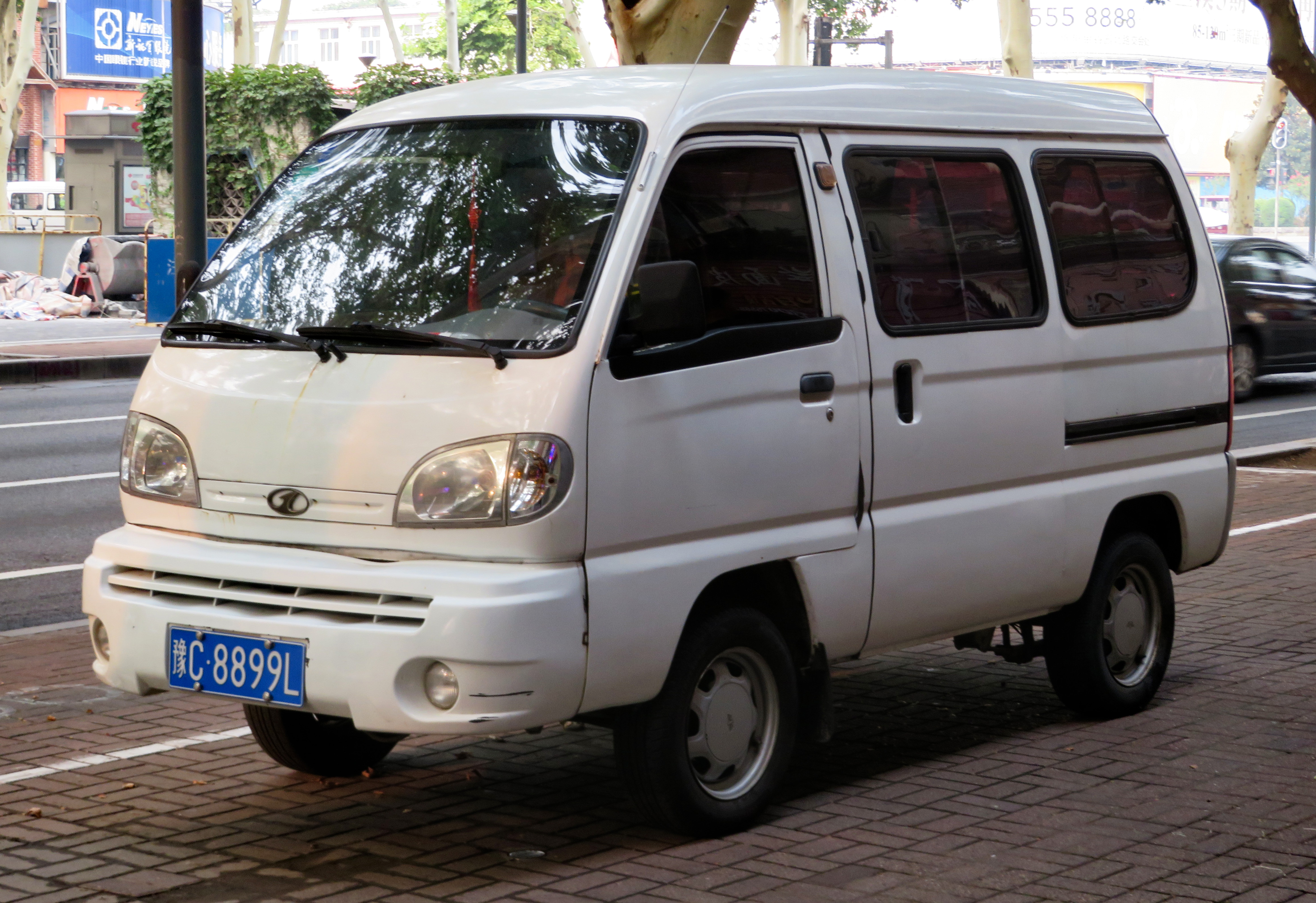 A 2001 FAW-Jilin Jiabao CA6361A1 photographed in Xigong District, Luoyang, Henan province, China